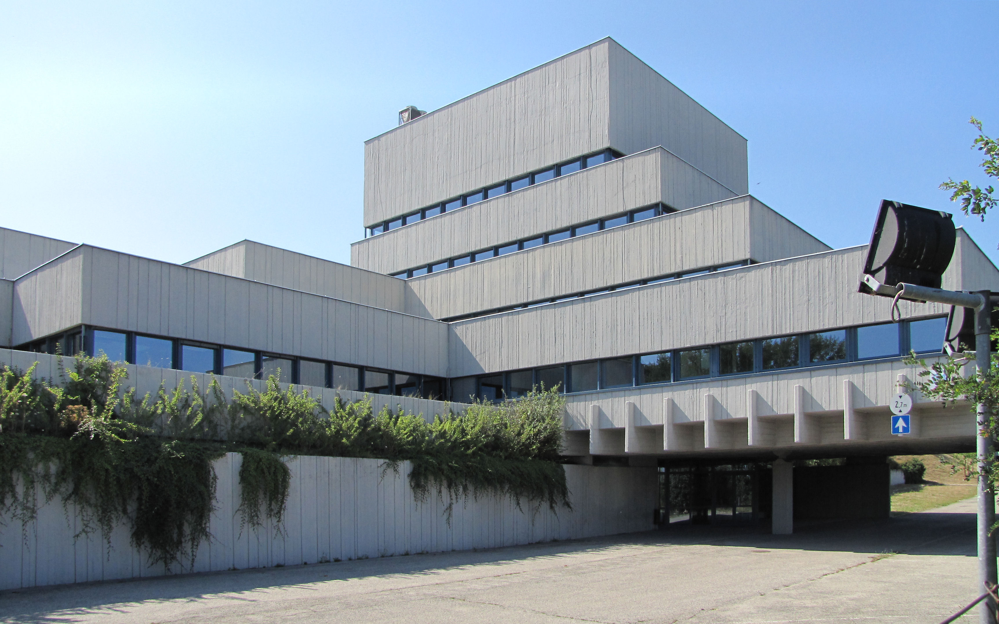 RADELKIS (later Ericsson) office building, Budapest. Architect: Antal Csíkvári, 1978.